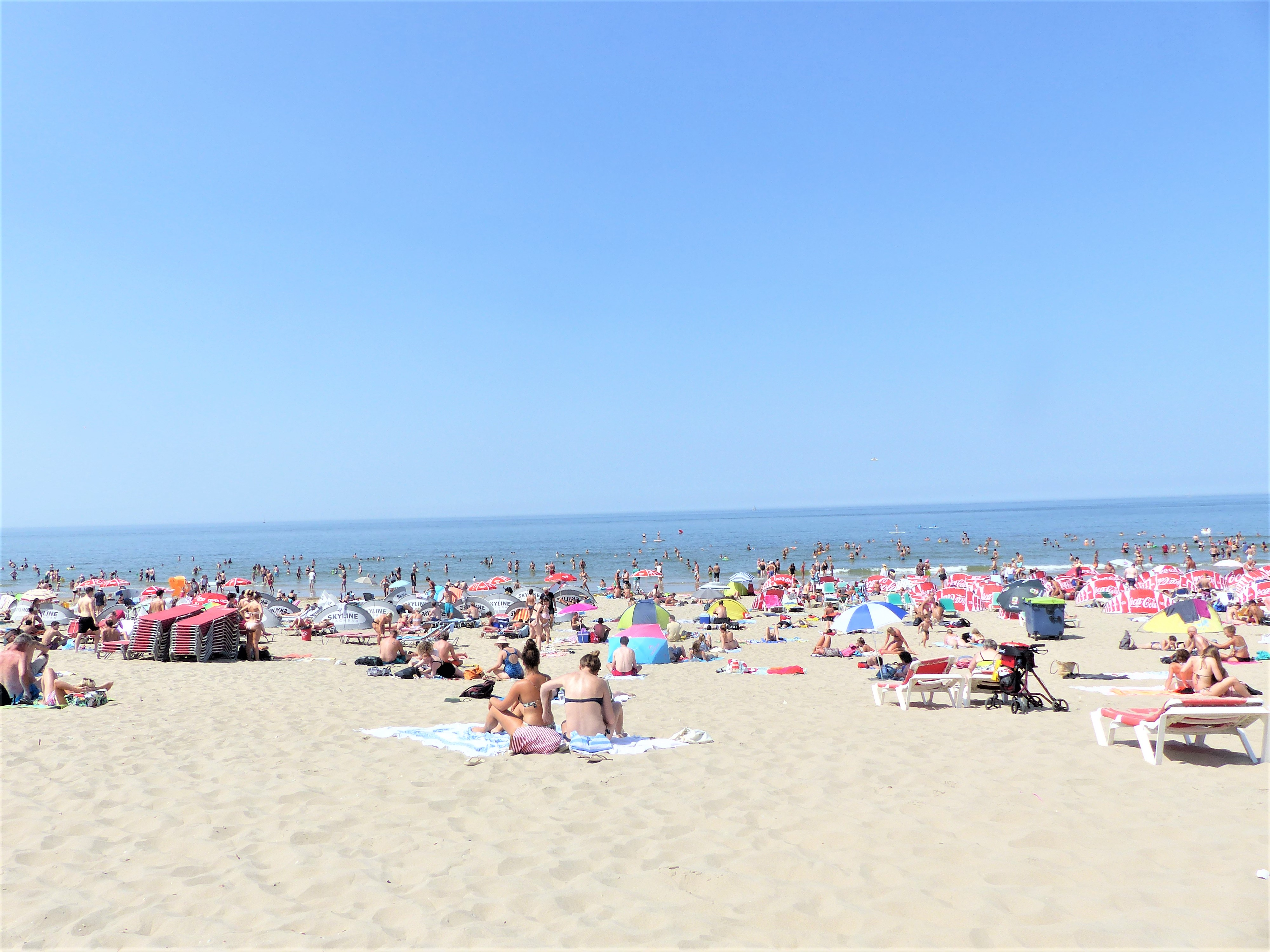 Zandvoort Beach (Zandvoort aan Zee) on the 7th of August, 2018. A bright summer day, maybe the best of the season. Near Amsterdam, the Kingdom of the Netherlands.